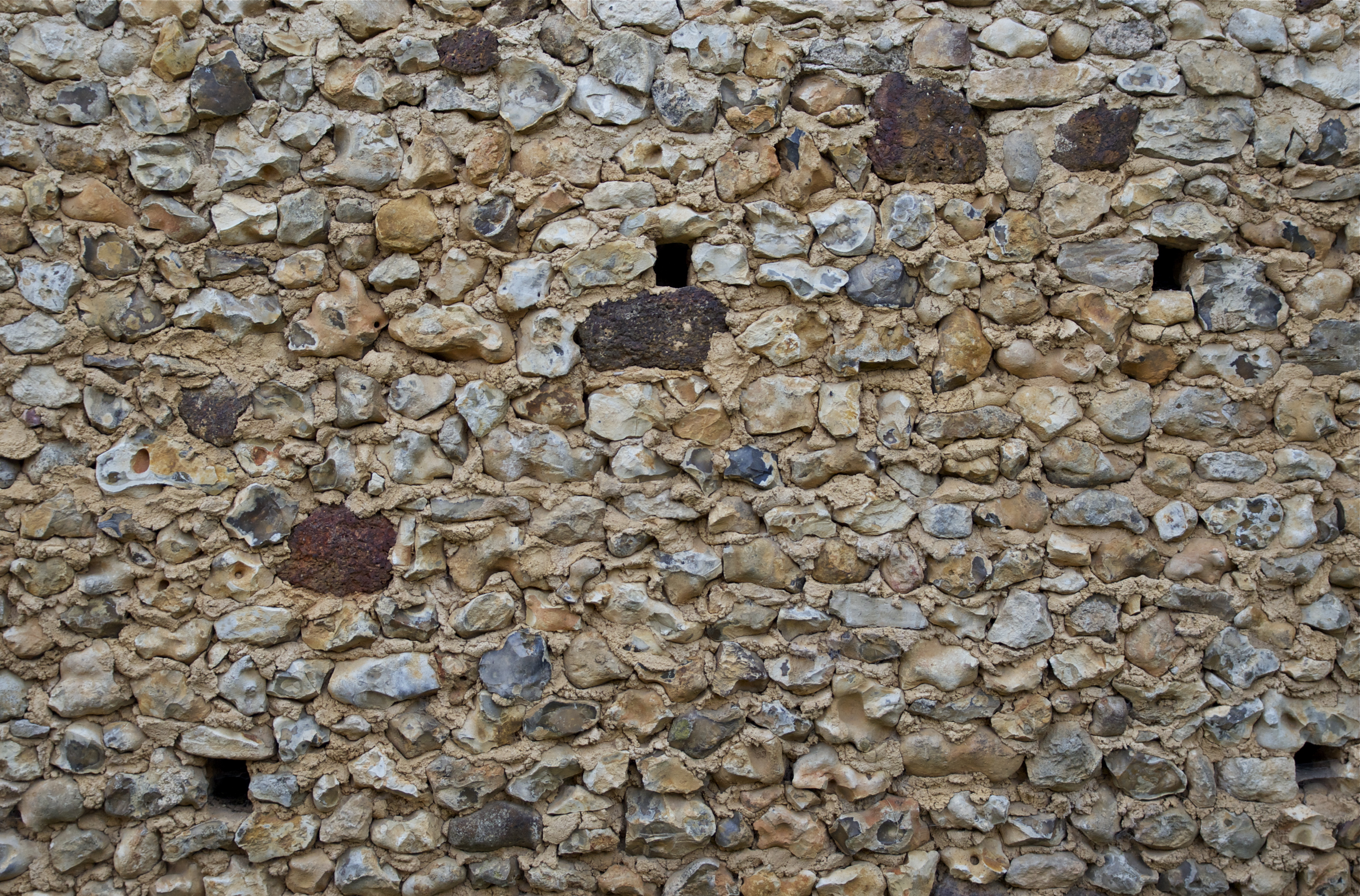 Stone wall of an old farm in Dordogne, France